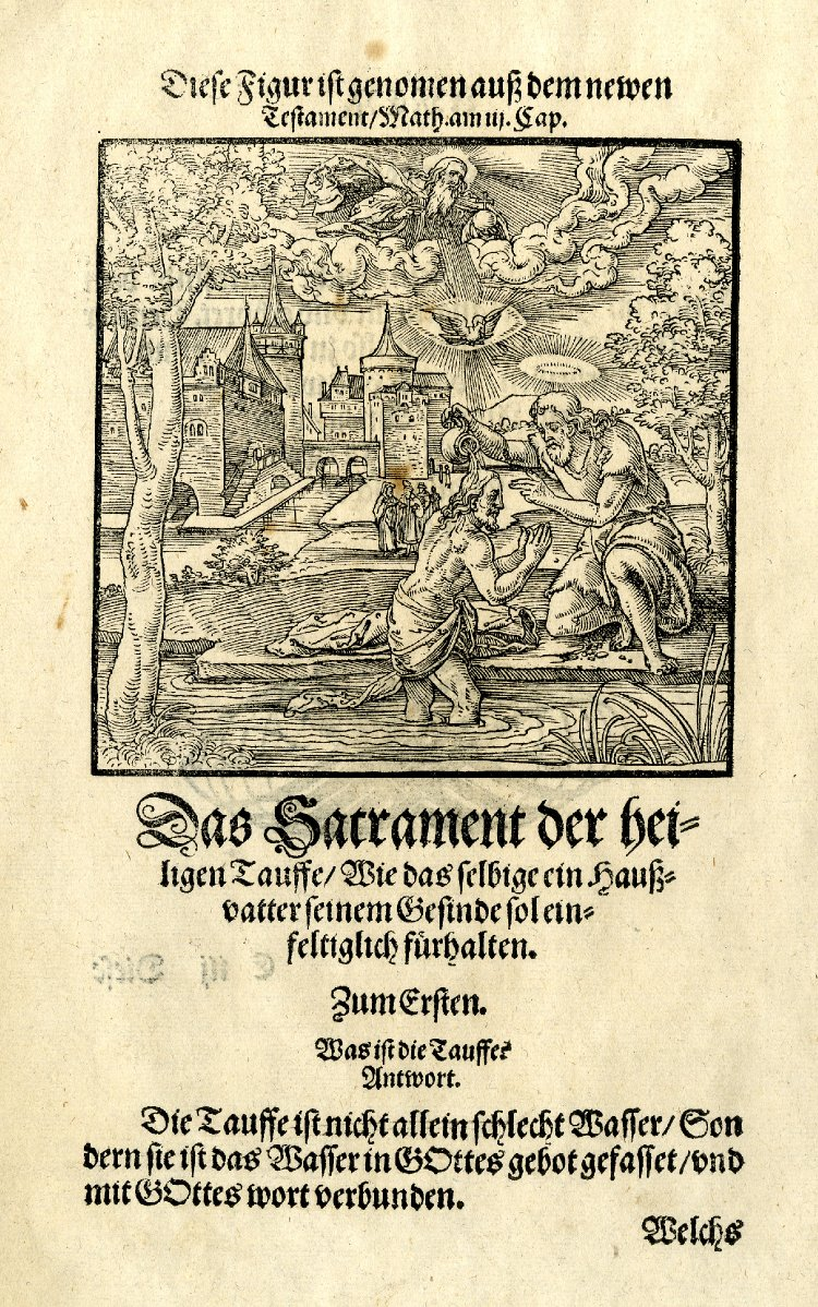 Woodcut by Hans Brosamer of the Baptism of Christ in the 1550 Frankfurt edition of the Small Catechism of Martin Luther